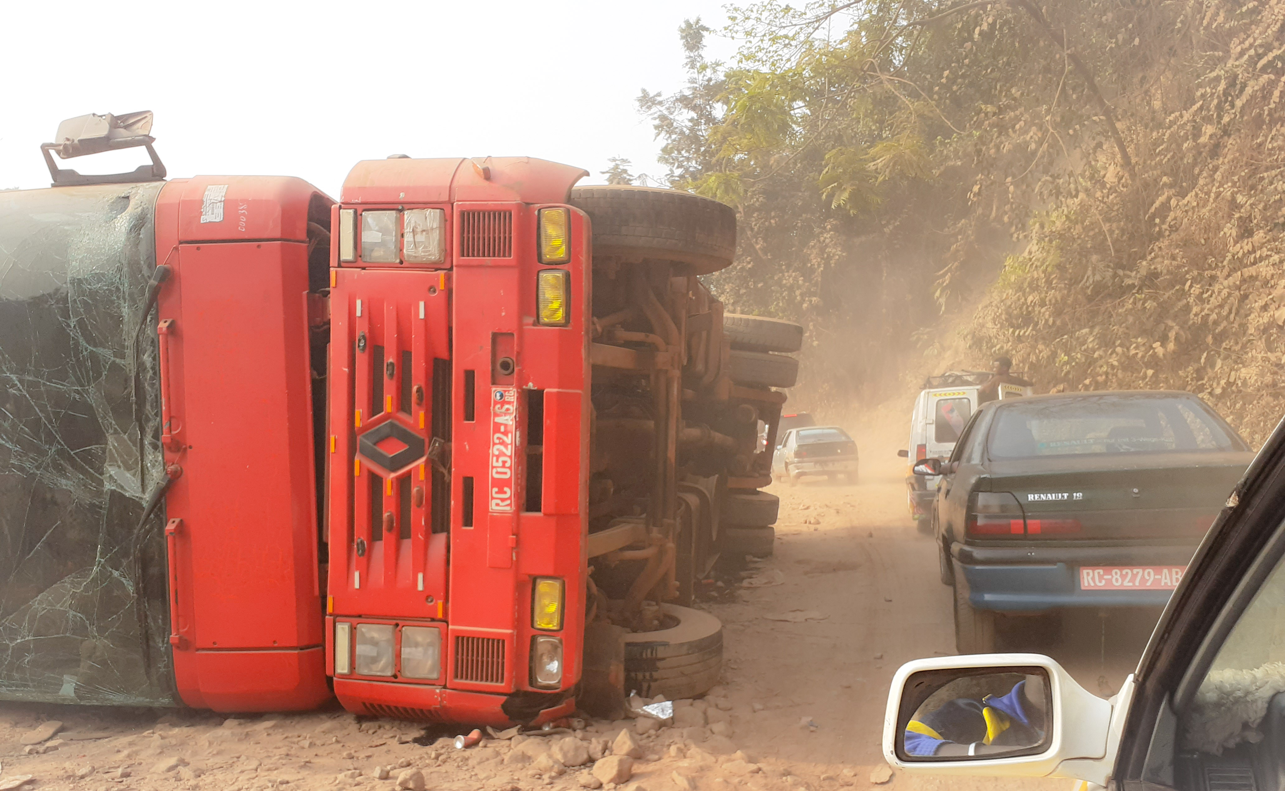 This is an image with the theme "Africa on the Move or Transport" from: Guinea